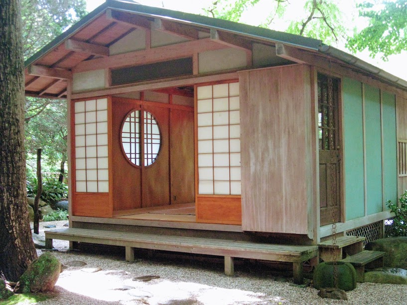 Front view of the tea house located at the John P. Humes Japanese Stroll Garden in Mill Neck, NY